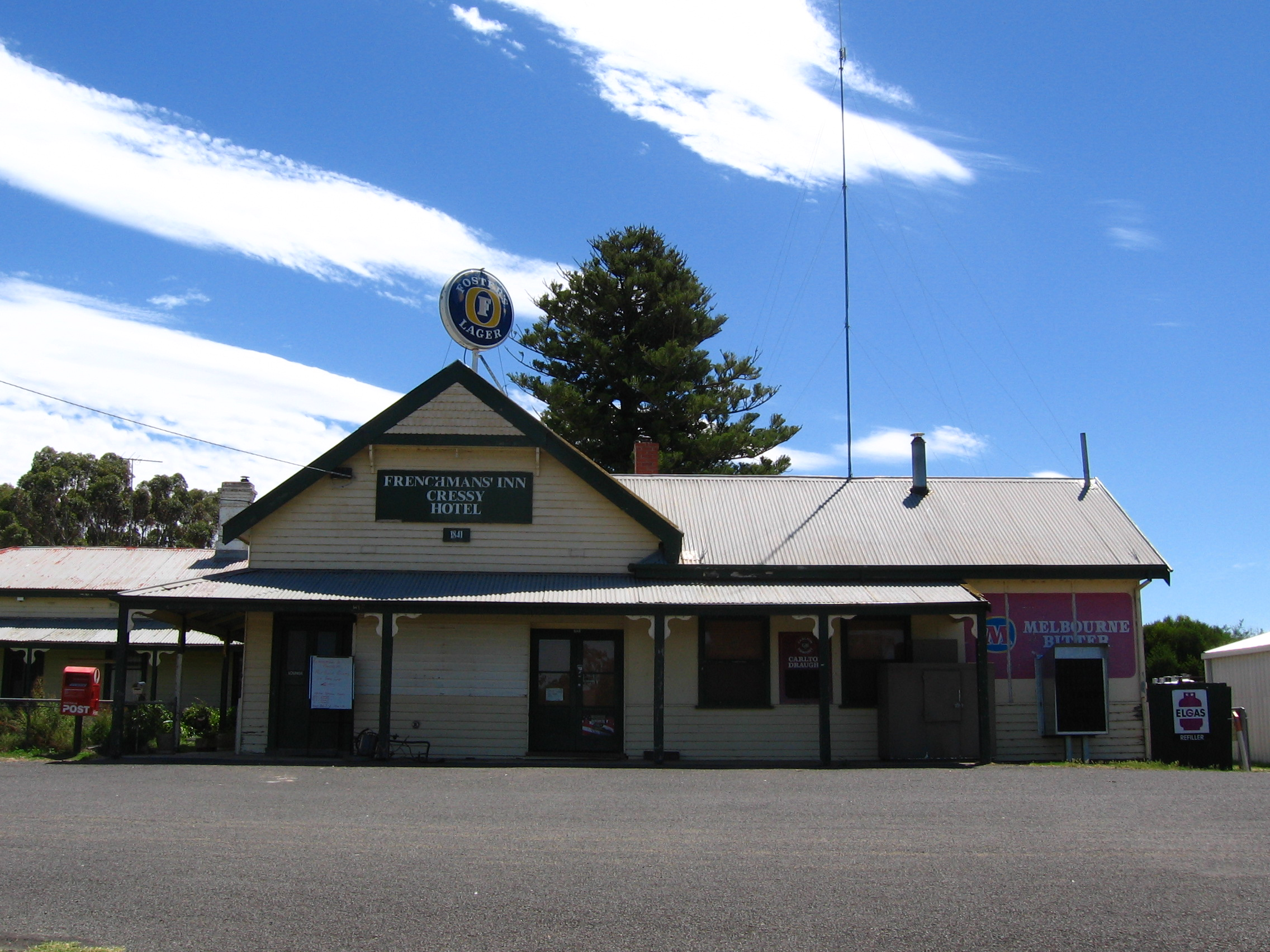 Frenchmans' Inn at Cressy, Victoria